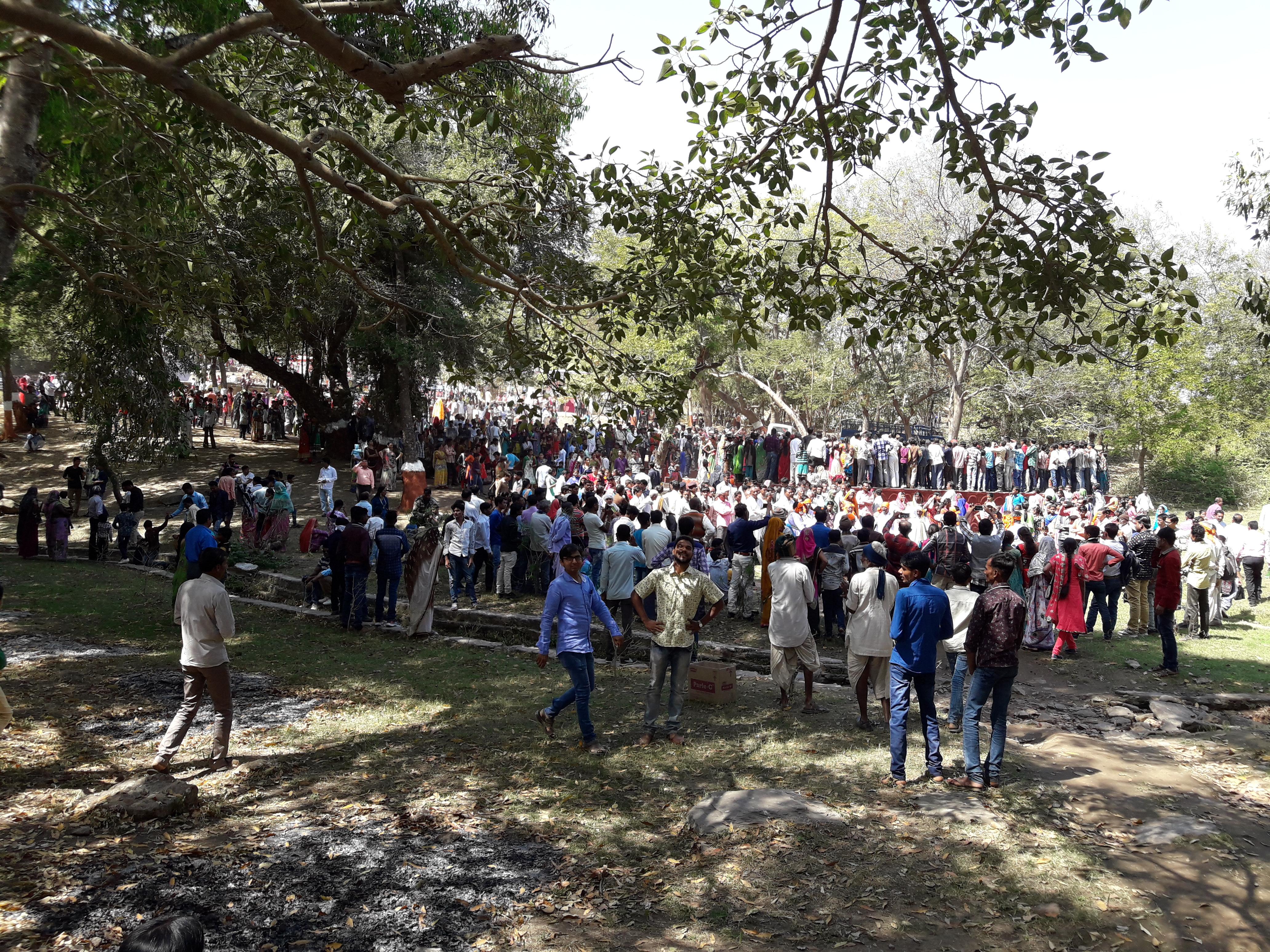 Kaleshwari Art Fair, held anuualy on Mahashivratri at Lunawada of Mahisagar district, Gujarat, India